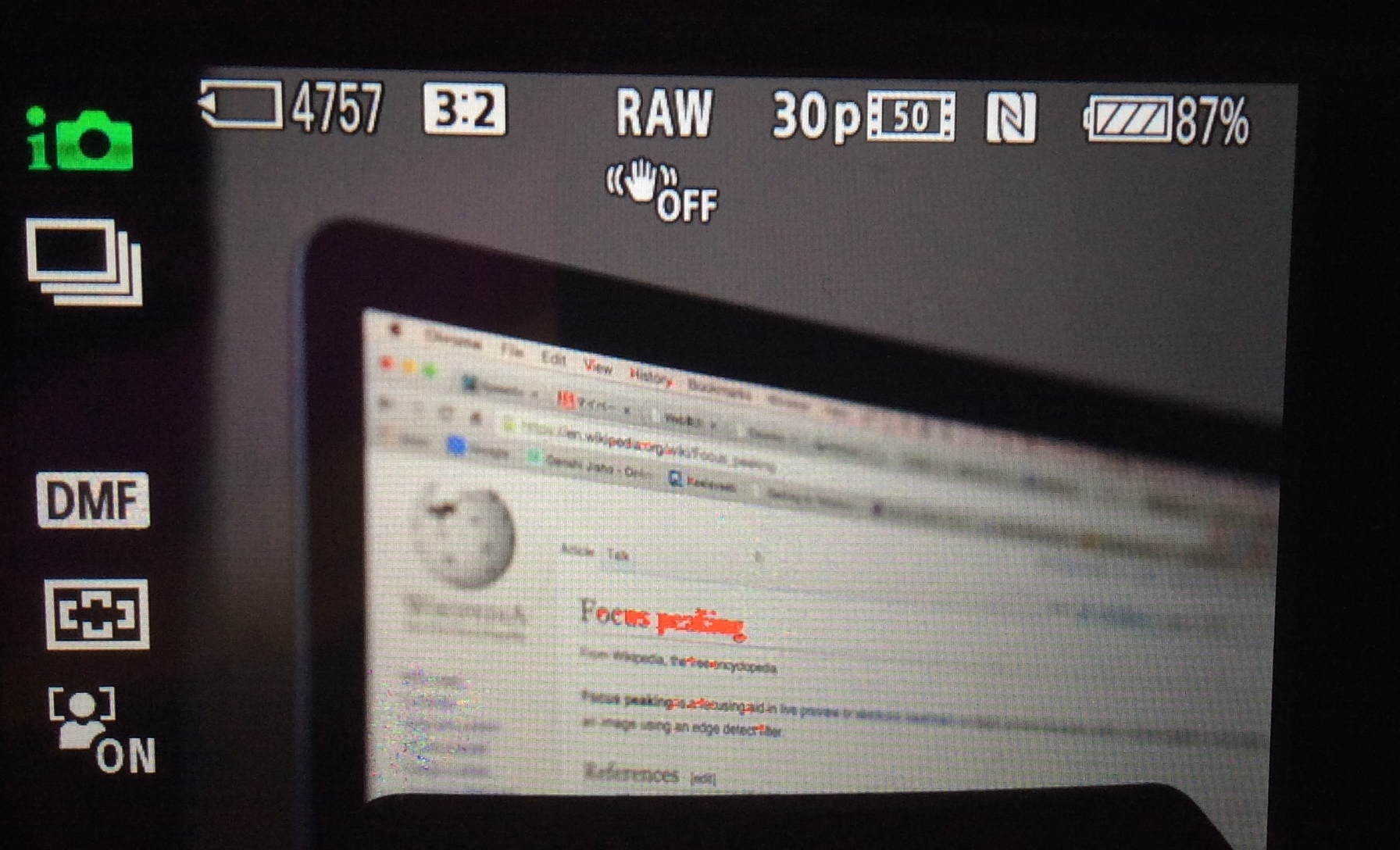 Focus peaking on digital camera